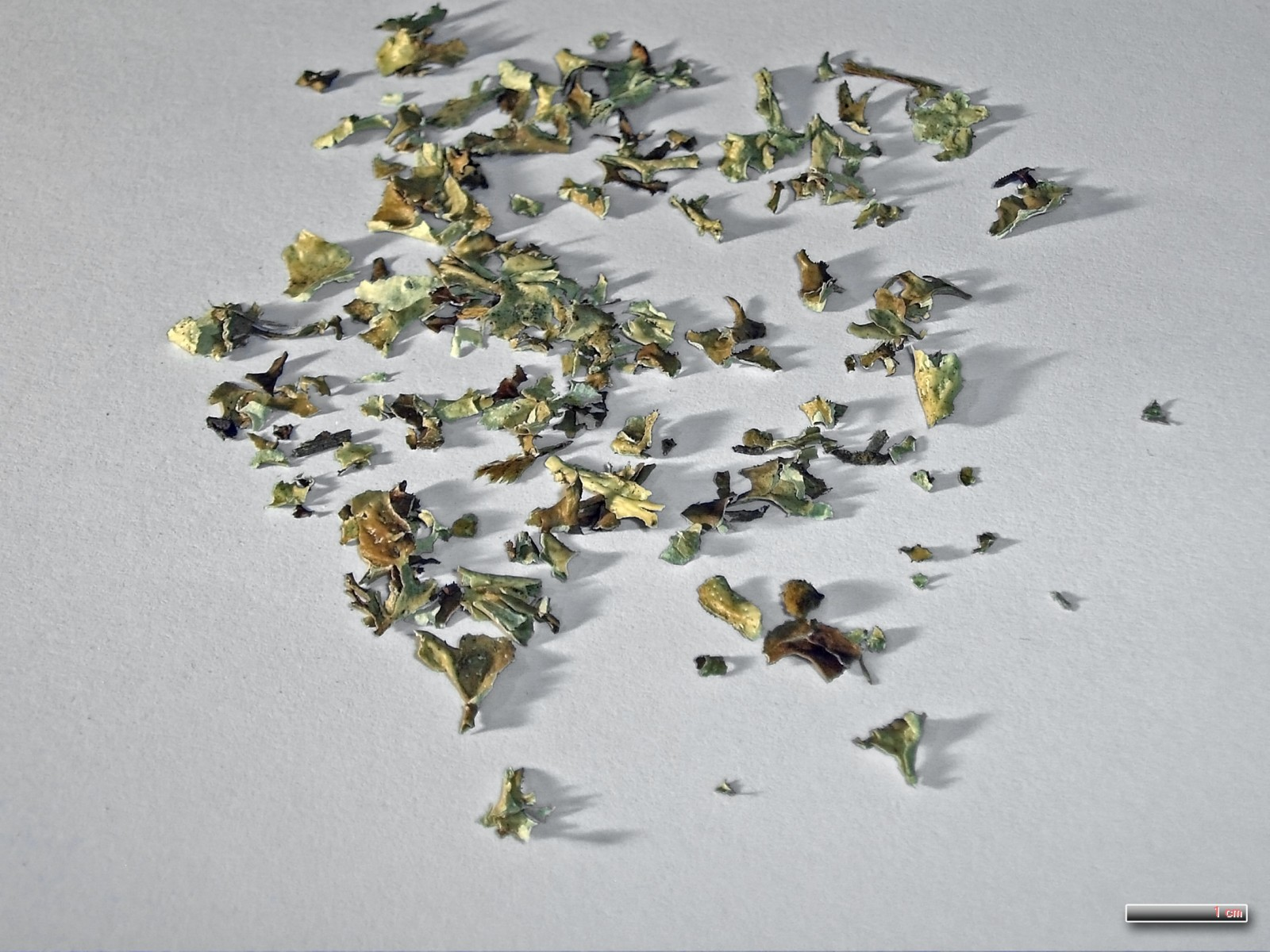 dried Iceland moss (Cetraria islandica) is a lichen whose erect or ascending foliaceous habit gives it something of the appearance of a moss